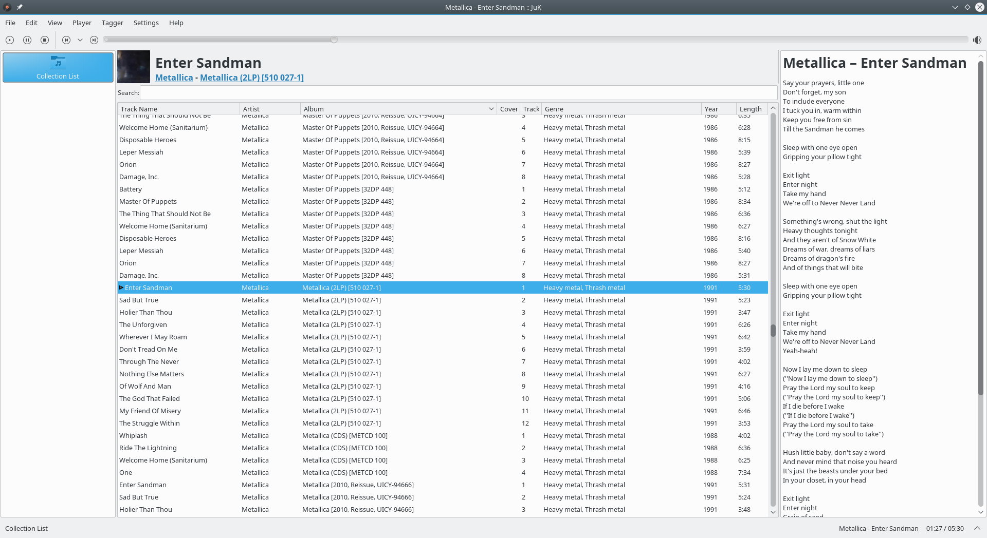 JuK Music Manager Screenshot